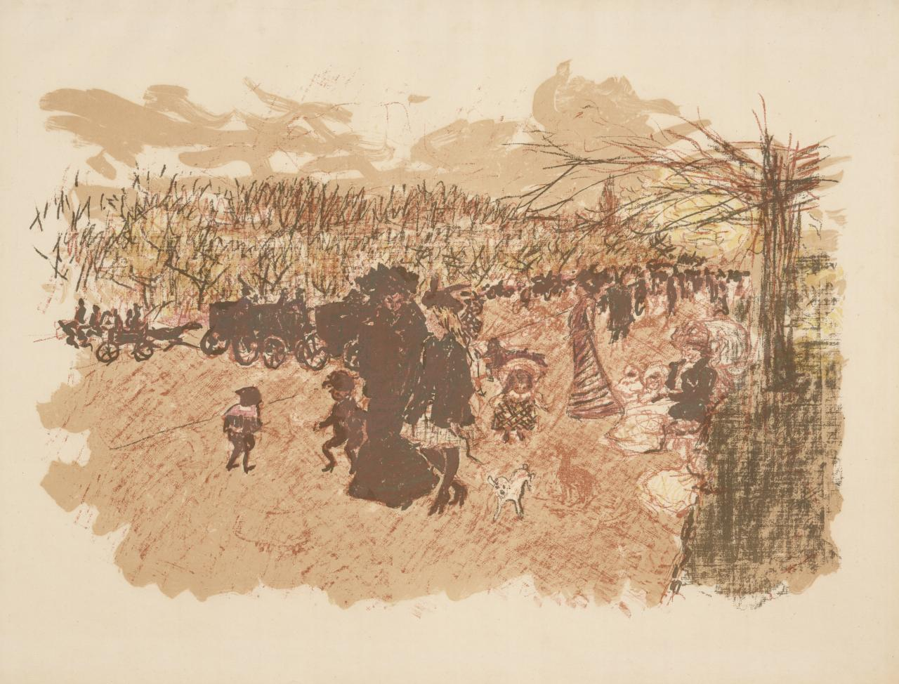 Painting by Pierre Bonnard